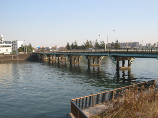 Mizoho-Oohashi, Edogawa-ku, Tokyo, Japan